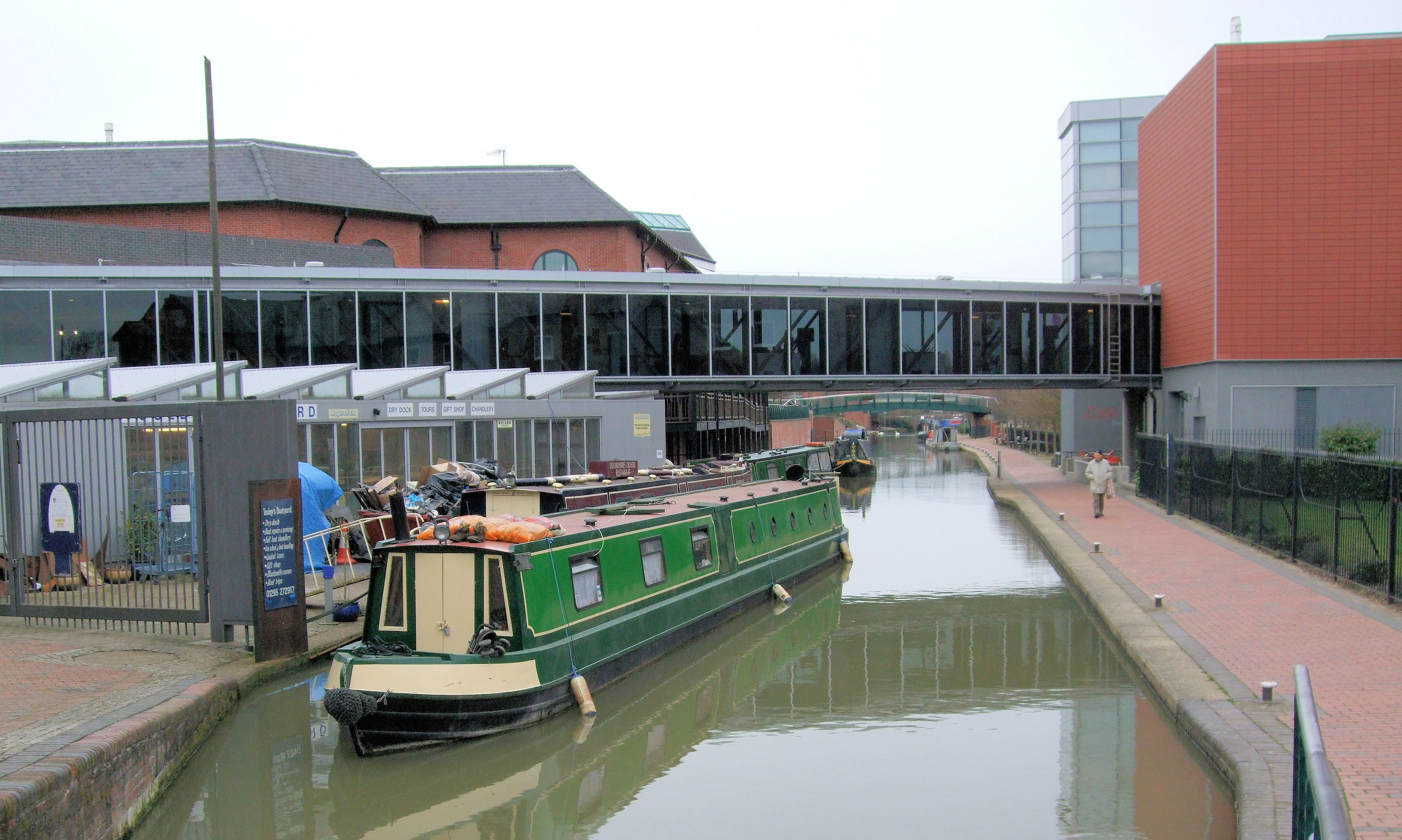 A narrowboat on the Oxford Canal by Tooley's Boatyard at Banbury, Oxfordshire